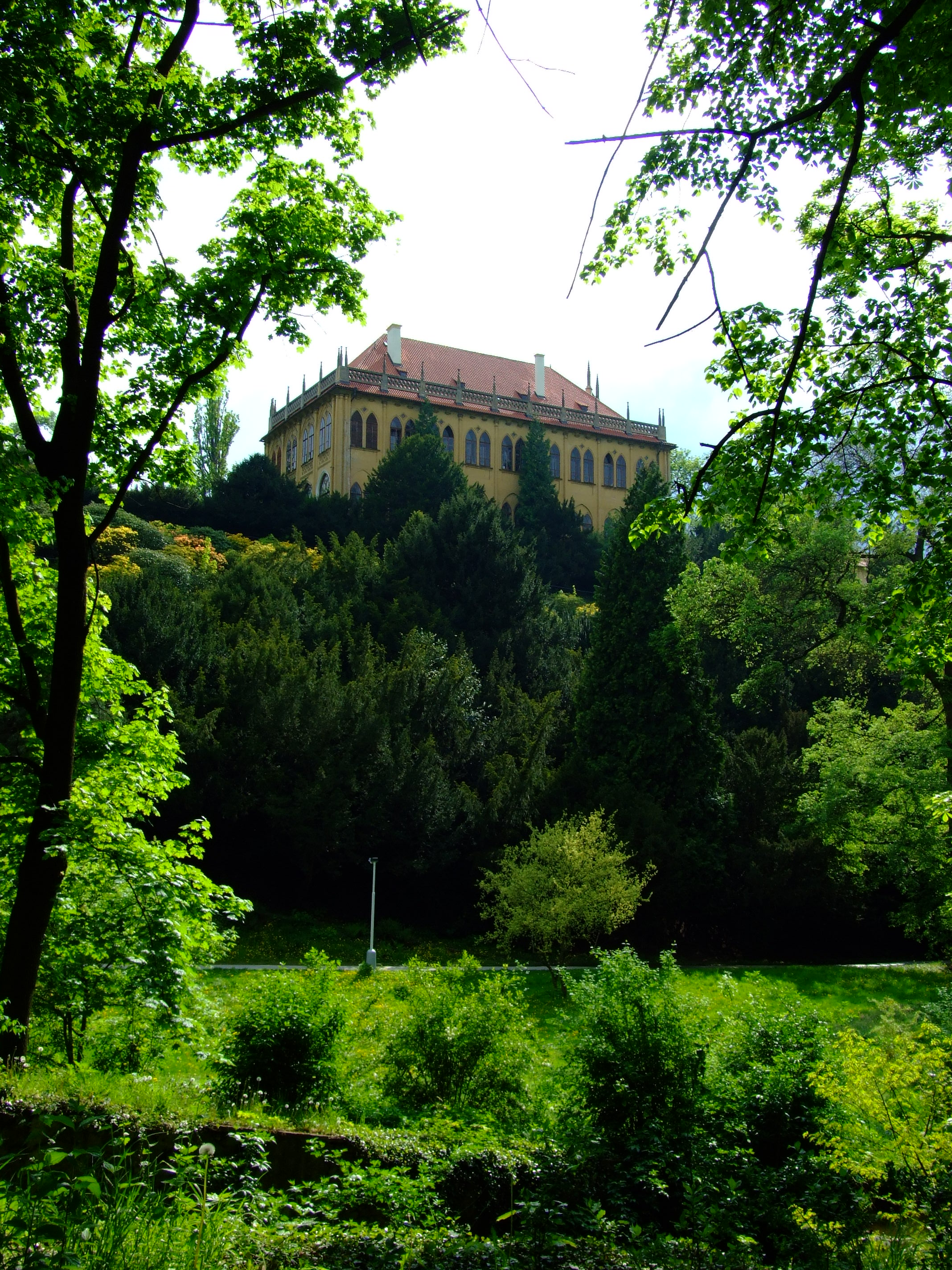 Místodržitelský letohrádek building in Stromovka park, located in its southern parthelp